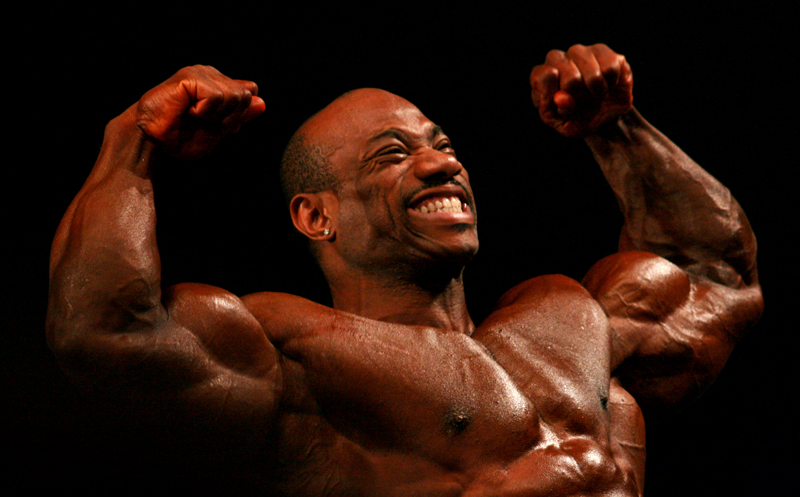 Dexter Jackson 2008 IFBB Australian Pro Grand Prix VIII